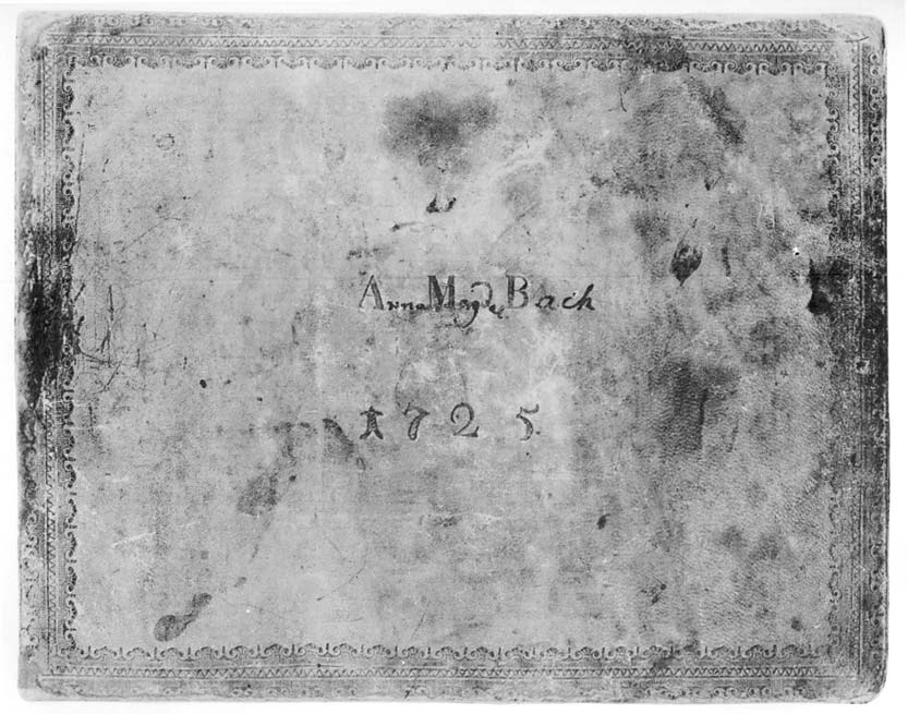 Cover of the second notebook for Anna Magdalena Bach. Taken from the Bach Gesamtausgabe (BGA), vol. 44 [B.W. XLIV]: "Joh. Seb. Bach's handschrift" (Joh.Seb.Bach's manuscripts), Originally published by the Bach-Gesellschaft in Leipzig, 1895. This image is in the public domain.